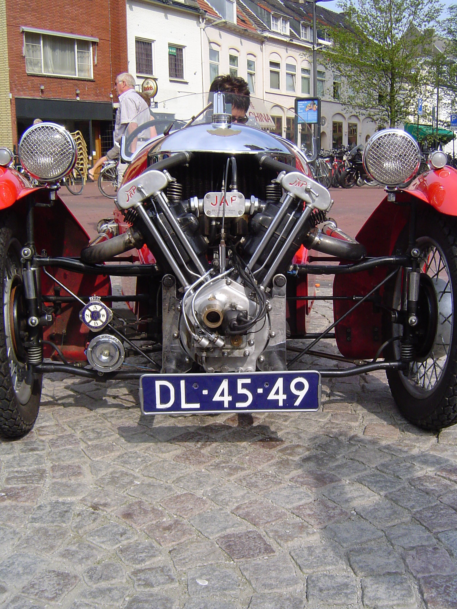 Vintage car: Morgan Super Sport 1934 with JAP liquid coold engine